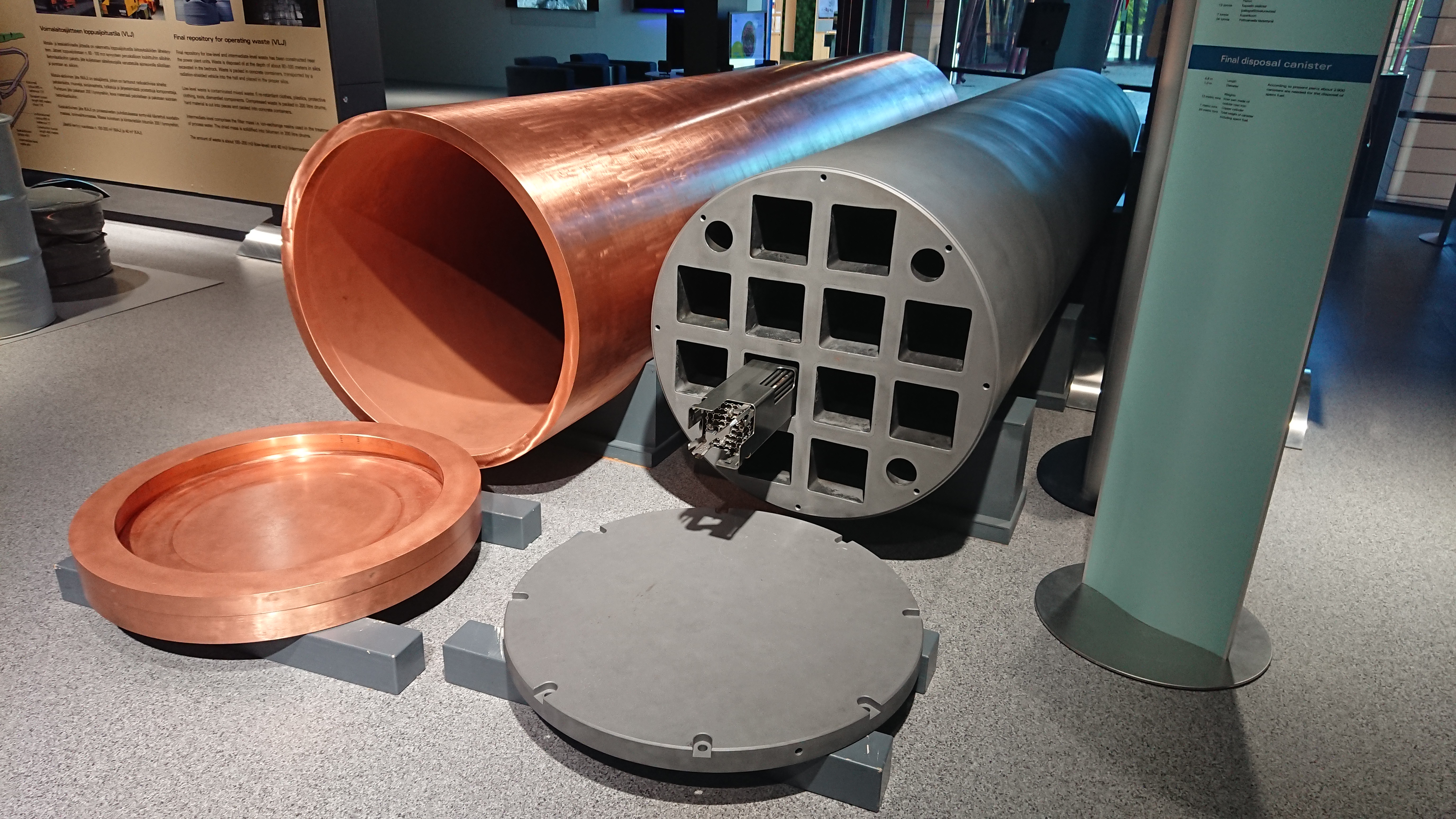 Final disposal canister for spent nuclear fuel as shown at the Olkiluoto Nuclear Power Plant Visitor Centre.